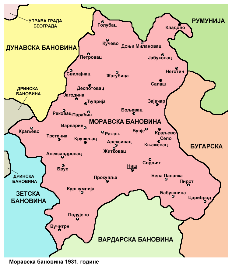 Morava Banovina in 1931.